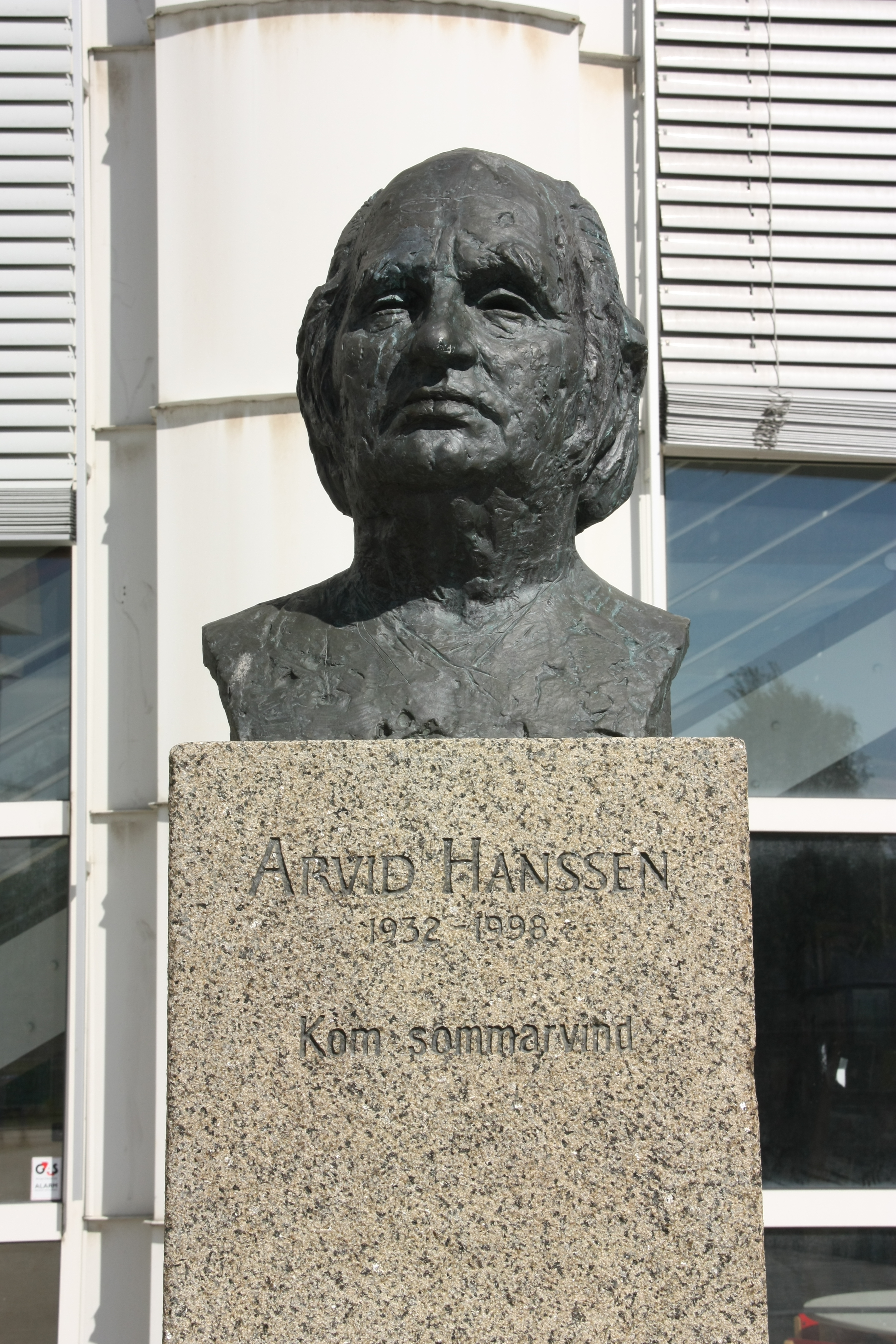 Bust of the writer Arvid Hanssen placed on Arvid Hanssens plass, Finnsnes, Norway.